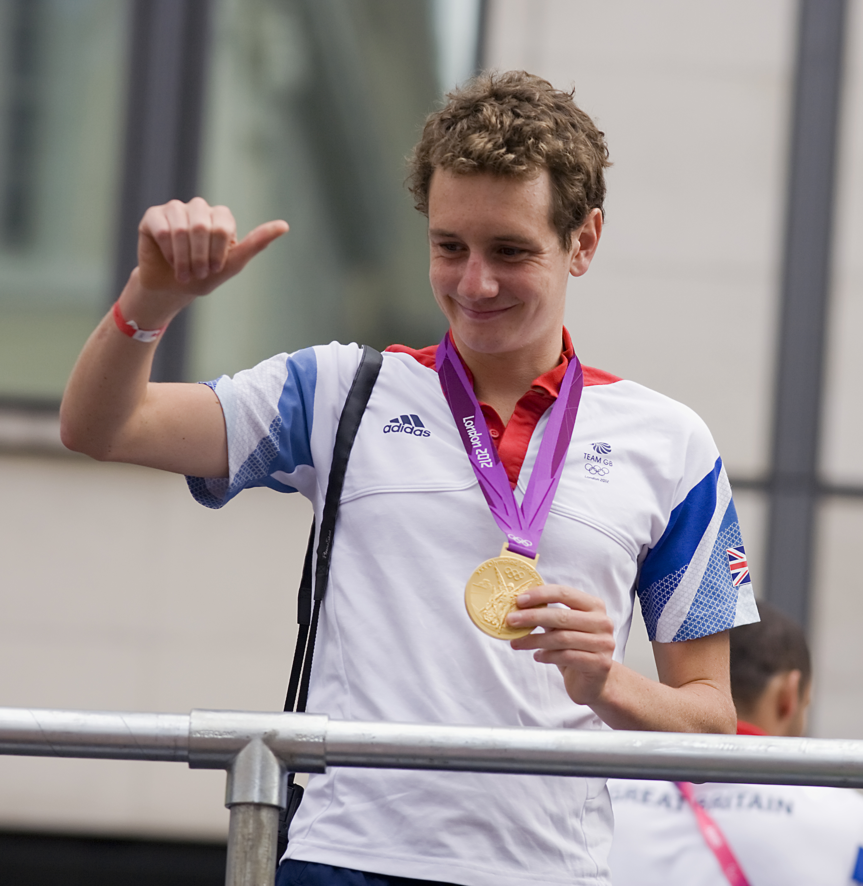 London 2012 Olympic & Paralympic Games Victory Parade, 10th September